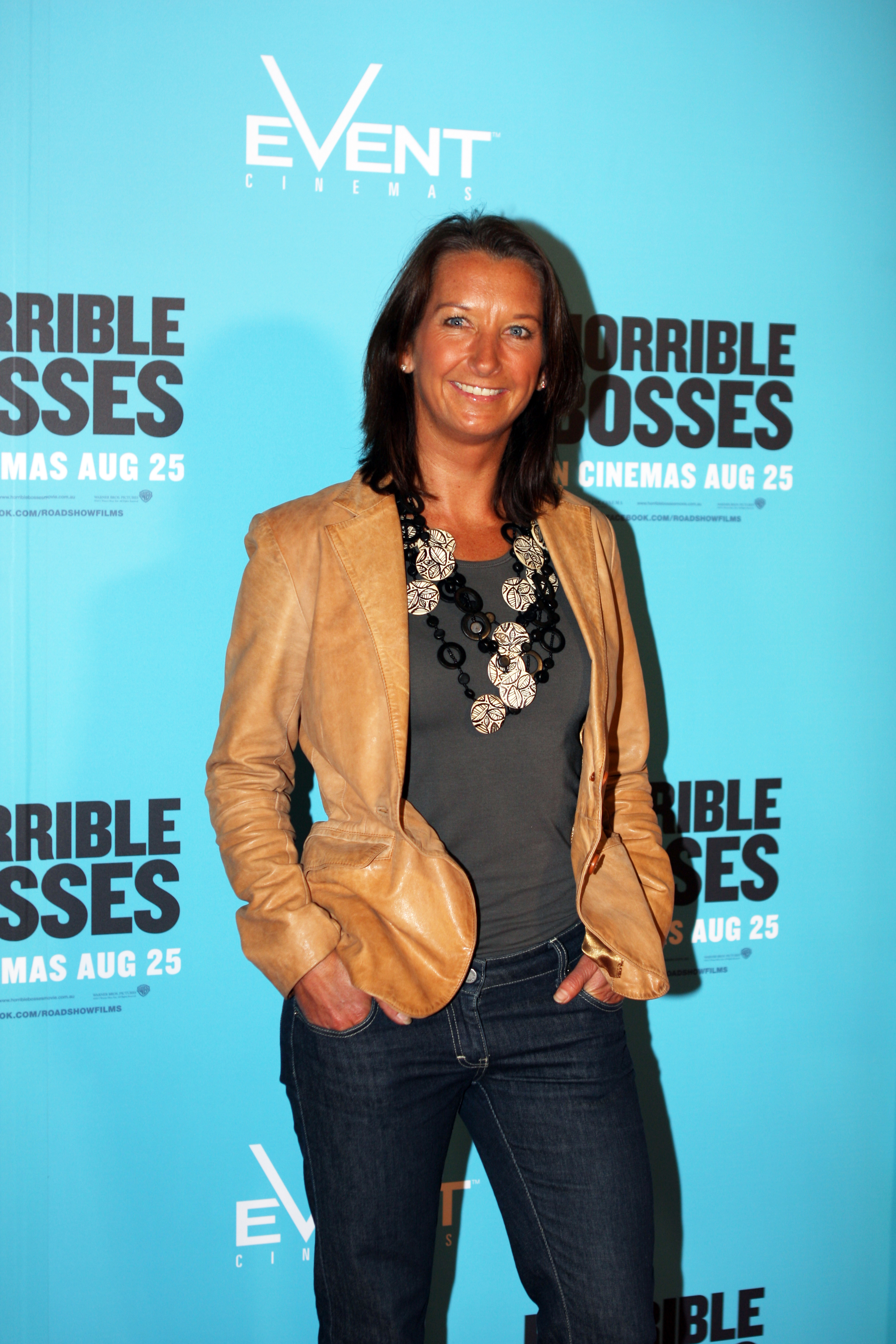 Layne Beachley